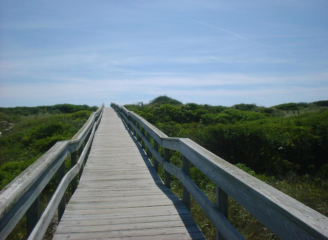 Watch Hill, Suffolk County, Long Island, New York, 11772 on one of the Barrier Islands/Fire Island across from the Patchogue Bay - through the Great South Bay by ferry to Watch Hill, NY